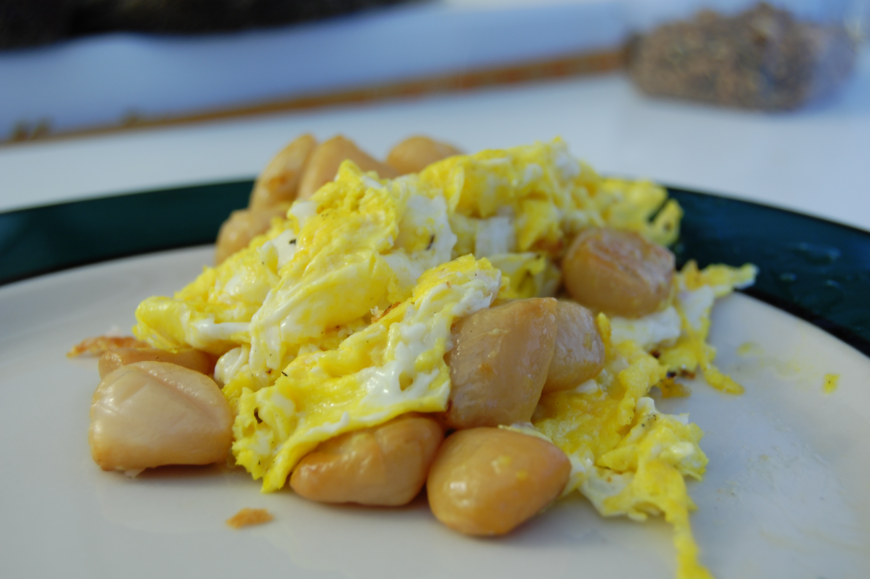 Another product from the smoked salmon vendor at the North Union Farmer Market. There's a good idea there but I need something to tie the dish together. Something crisp and fresh and something spicy, maybe.